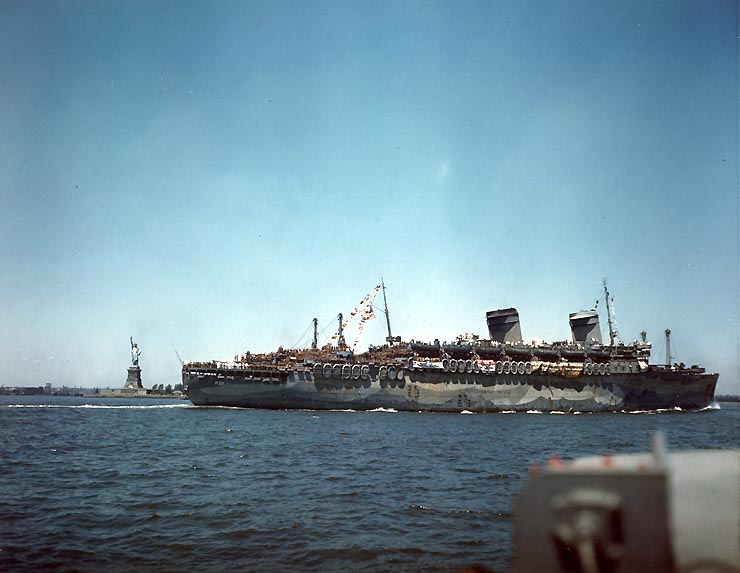 The U.S. Navy troop transport USS West Point (AP-23) steams past the Statue of Liberty, bound for the New York City docks, while transporting troops home from Europe, 11 July 1945. Banners hanging from her superstructure identify the following U.S. Army units (from left to right): Fifth Corps; 347th Infantry Regiment; and 87th Infantry Division. Note West Point's pattern camouflage.